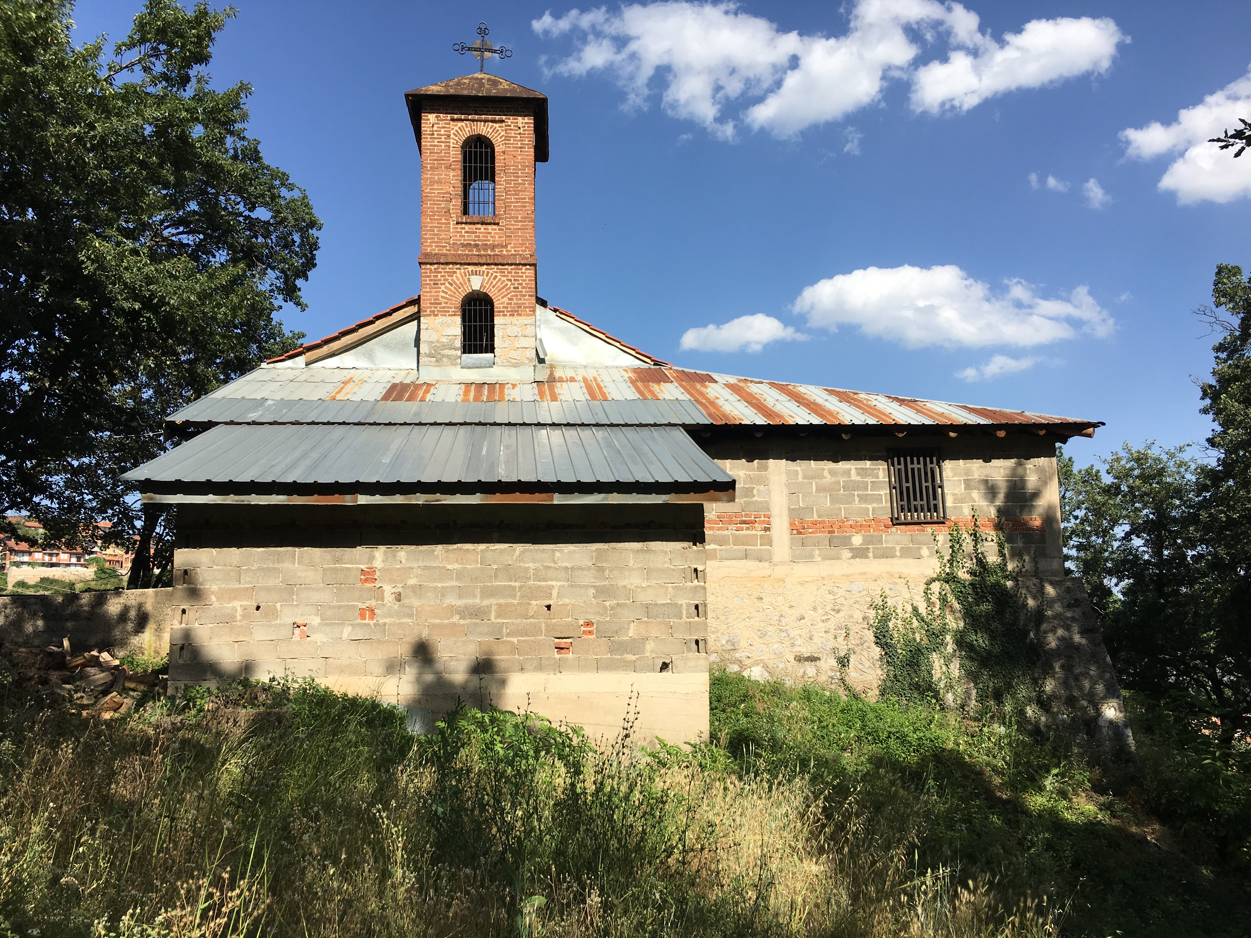 St. Nicholas Church in the village of Labuništa